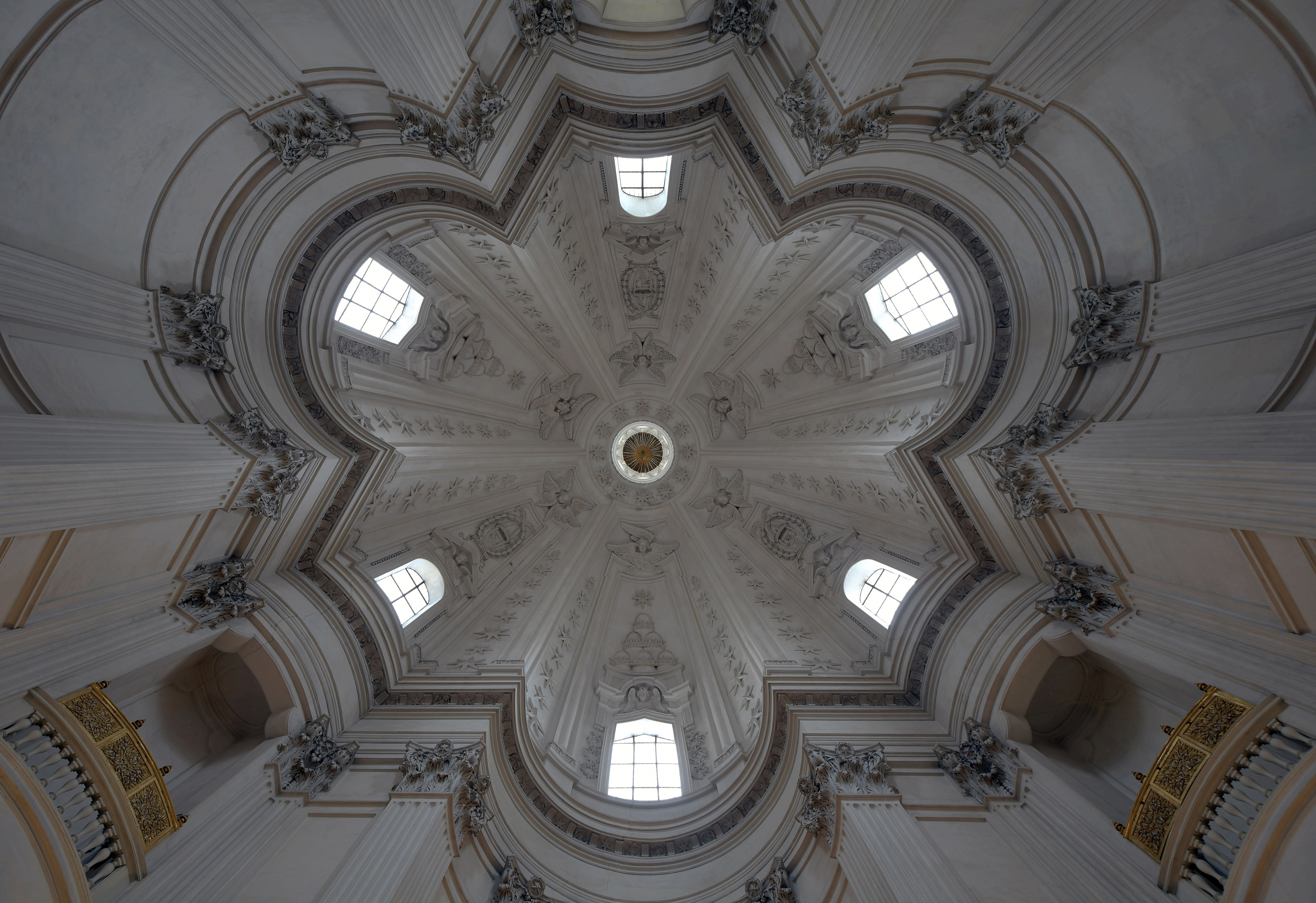 Sant'Ivo alla Sapienza (Rome) - Dome